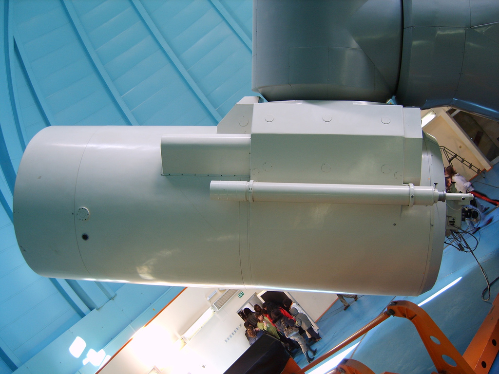 The Large 2-meter telescope at NAO Rozhen